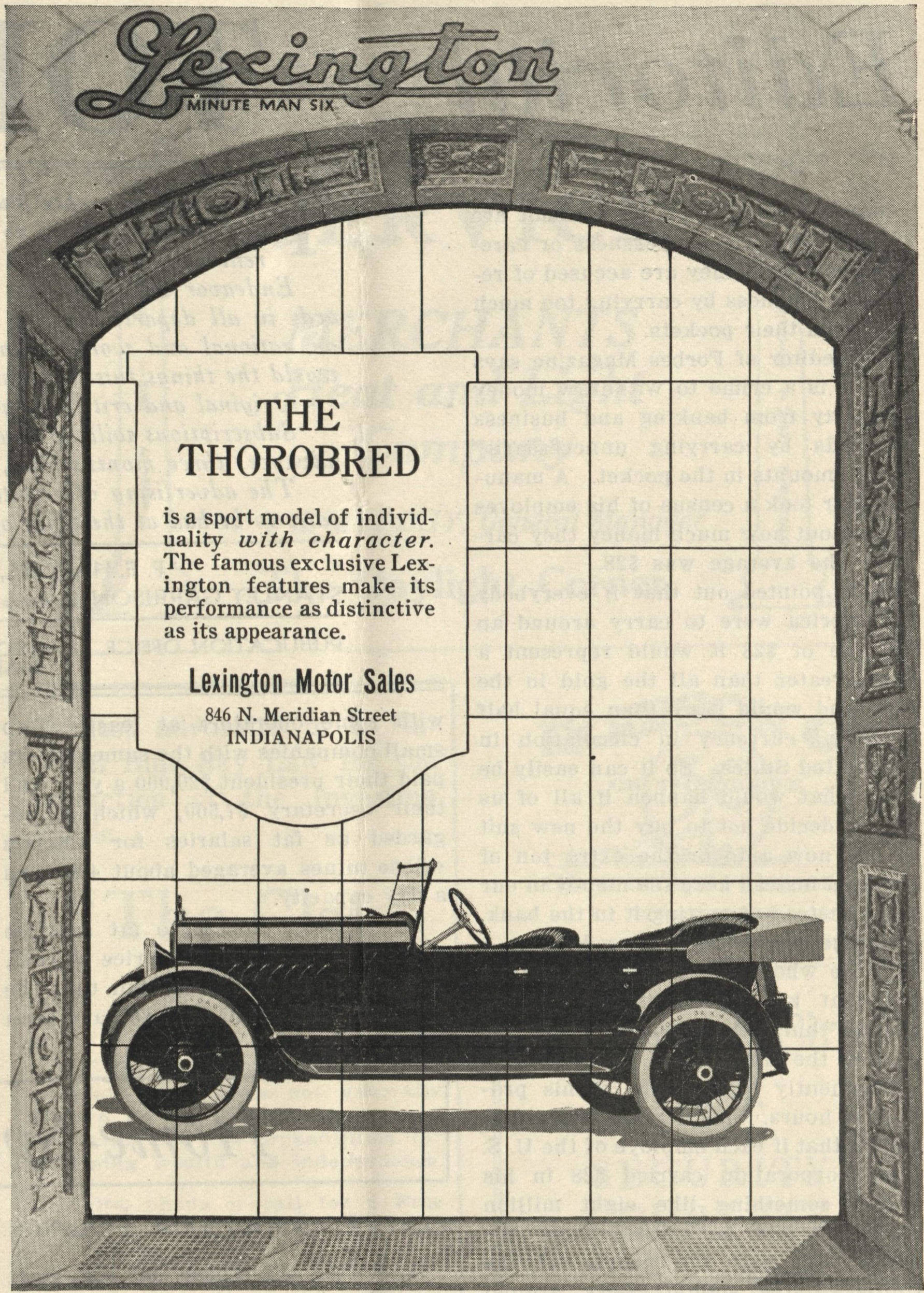 This is an issue of Topics, a magazine about literature, arts, music, and theatre as well as advertising about events and businesses in Indianapolis.